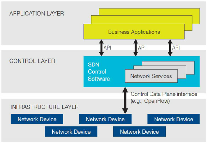 SDN architecture example